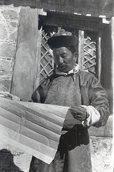 To celebrate New Year's Day we invited the following to a luncheon party: the Prime Minister; the four Shappes - or Cabinet Ministers - Langchunga, Bhondong, Tendong and Kalon Lama; the Yapshi Kung, or Grand Duke: Tsarong Dzaza, and Chikyap Khempo, the head of the Ecclesiastical party. ... On arrival the first act of the Cabinet was to hand to Norbhu a sealed packet made of coarse Tibetan paper, together with the customary white silk scarf of greeting. This turned out to be the permission for an Everest Expedition in 1938. The Cabinet had been considering the question for some weeks and it struck us as an act of the greatest courtesy to hand over the permit so unostentatiously as a New Year's present" ['Lhasa Mission, 1936: Diary of Events', Part XII p.1 , written by Chapman] [MS 23/03/2006]